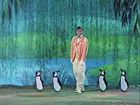 Screenshot of Dick Van Dyke from the trailer for the film Mary Poppins